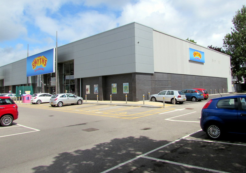 Located in Mendalgief Retail Park on the north side of Docks Way.